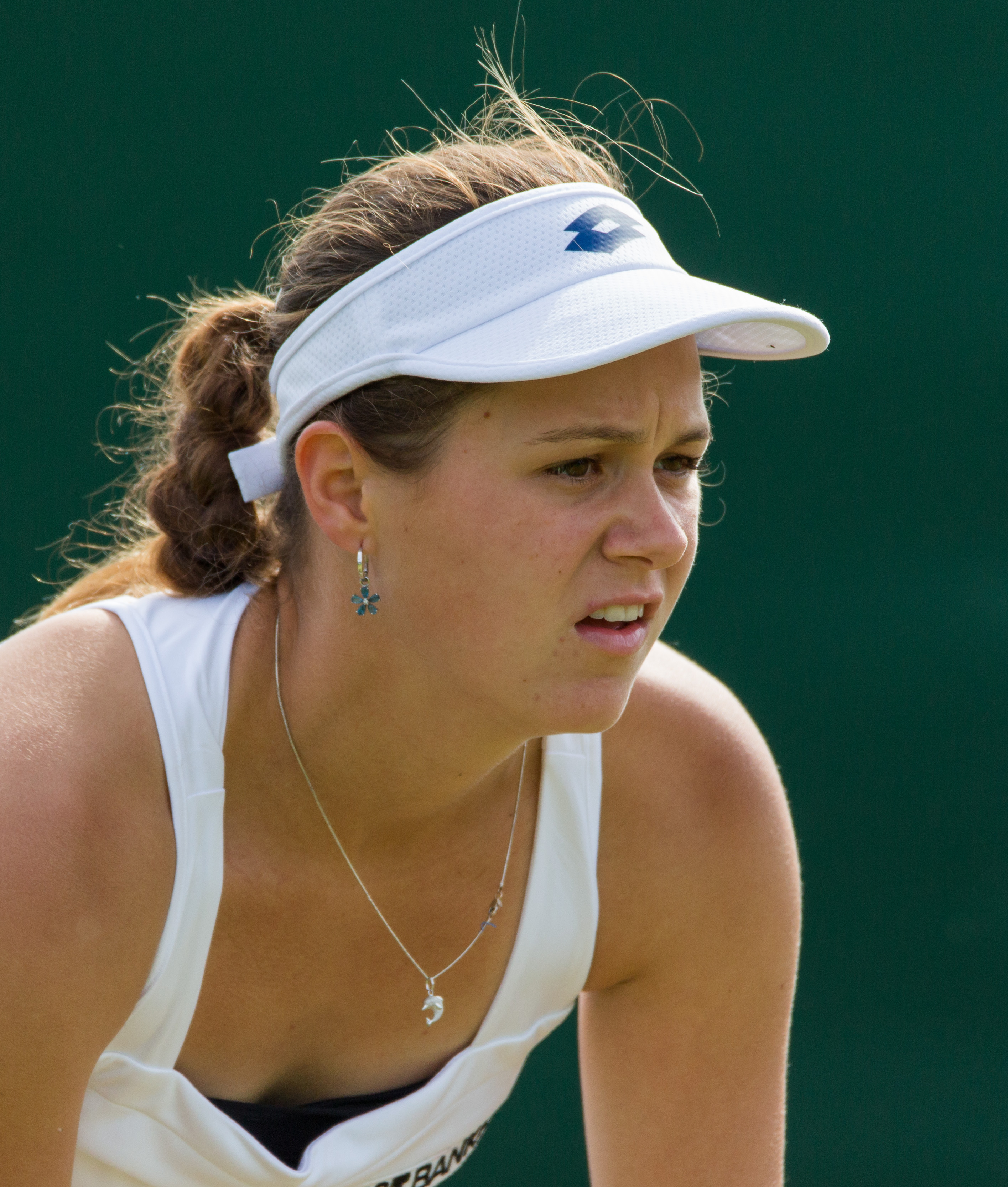 Jana Čepelová competing in the second round of the 2015 Wimbledon Qualifying Tournament at the Bank of England Sports Grounds in Roehampton, England. The winners of three rounds of competition qualify for the main draw of Wimbledon the following week.